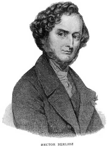 Contemporary engraving of Hector Berlioz (1803 – 1869)